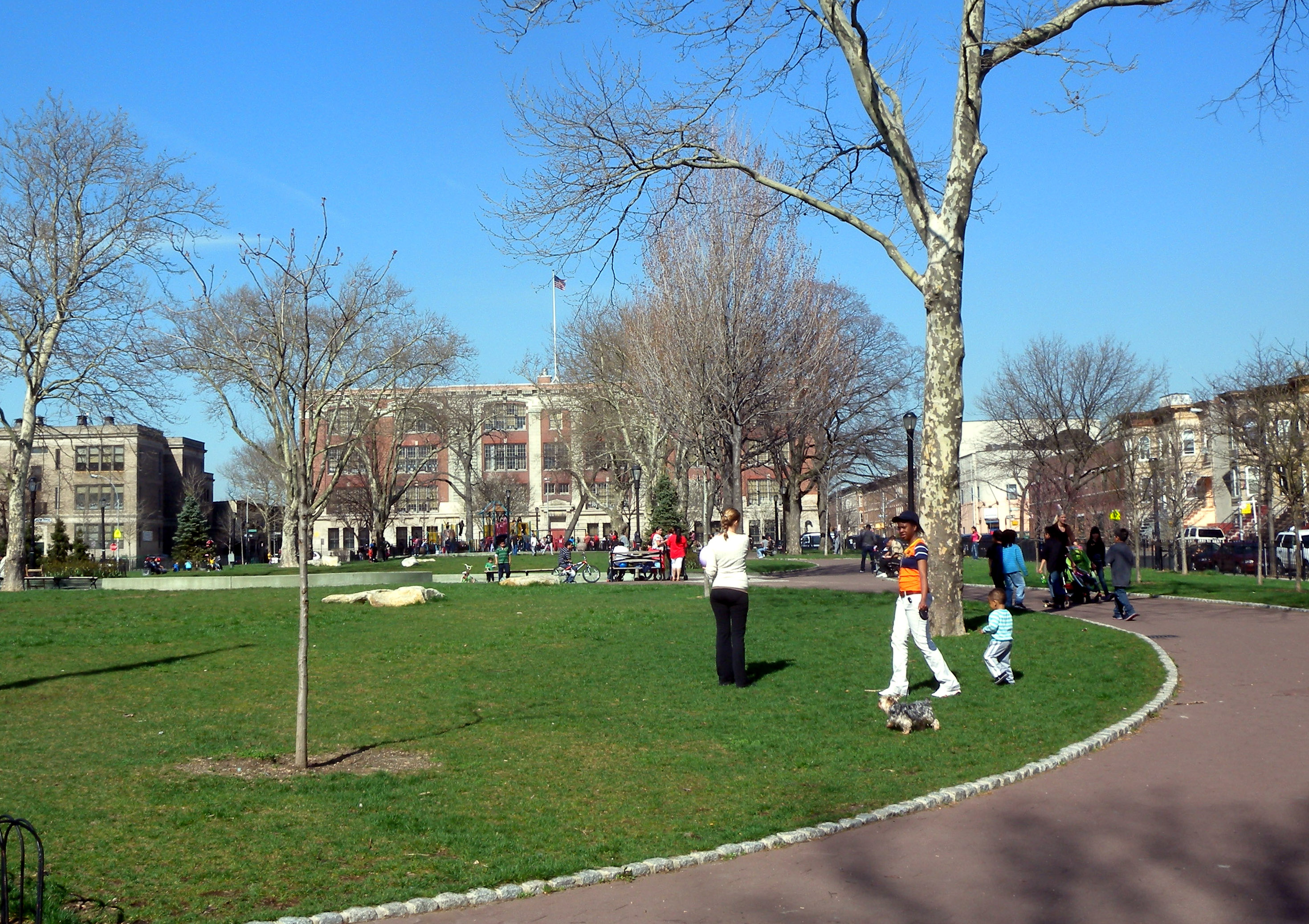 Looking northeast in the southeastern part of Irving Square Park on a sunny afternoon. PS 151 in background center; St Elizabeth Seton School background left.